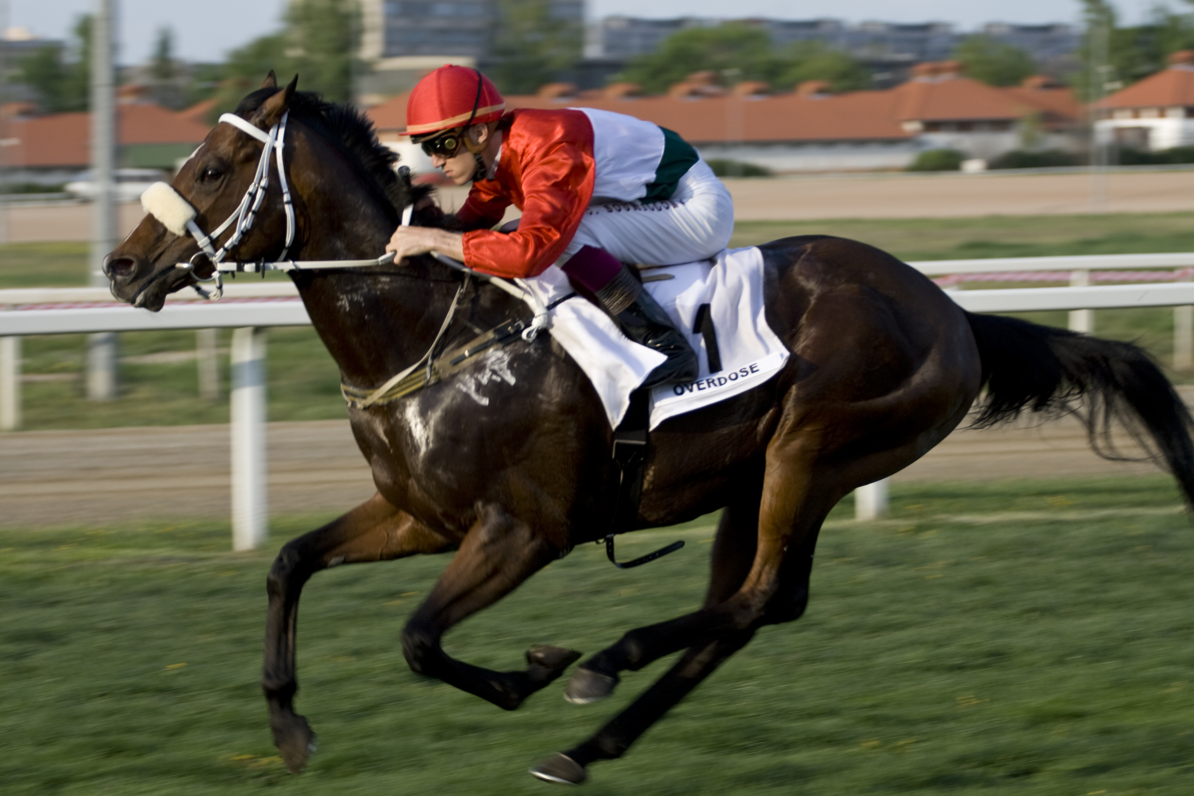 Overdose, with Cristopher Soumillon on the back, winning the OTP-Hungária Cup.